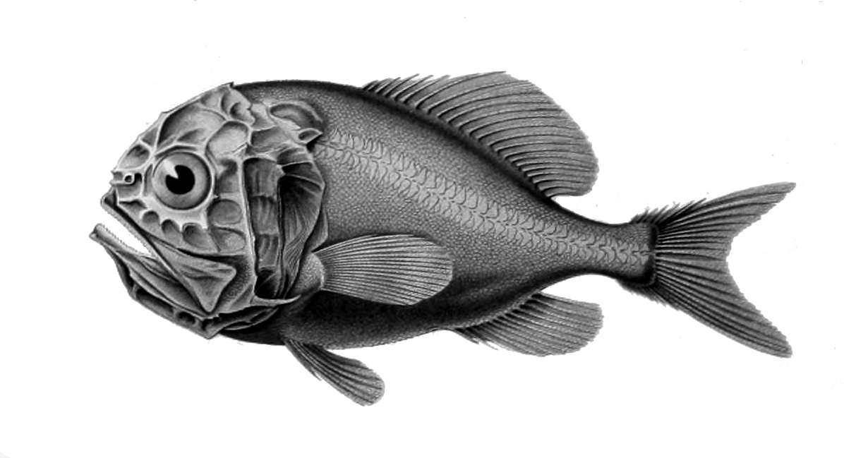 Hoplostethus atlanticus